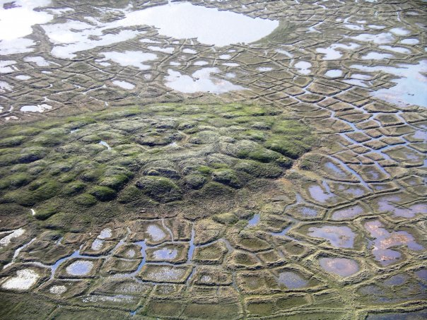 A melting pingo and polygon wedge ice near Tuktoyaktuk, Northwest Territories, Canada.